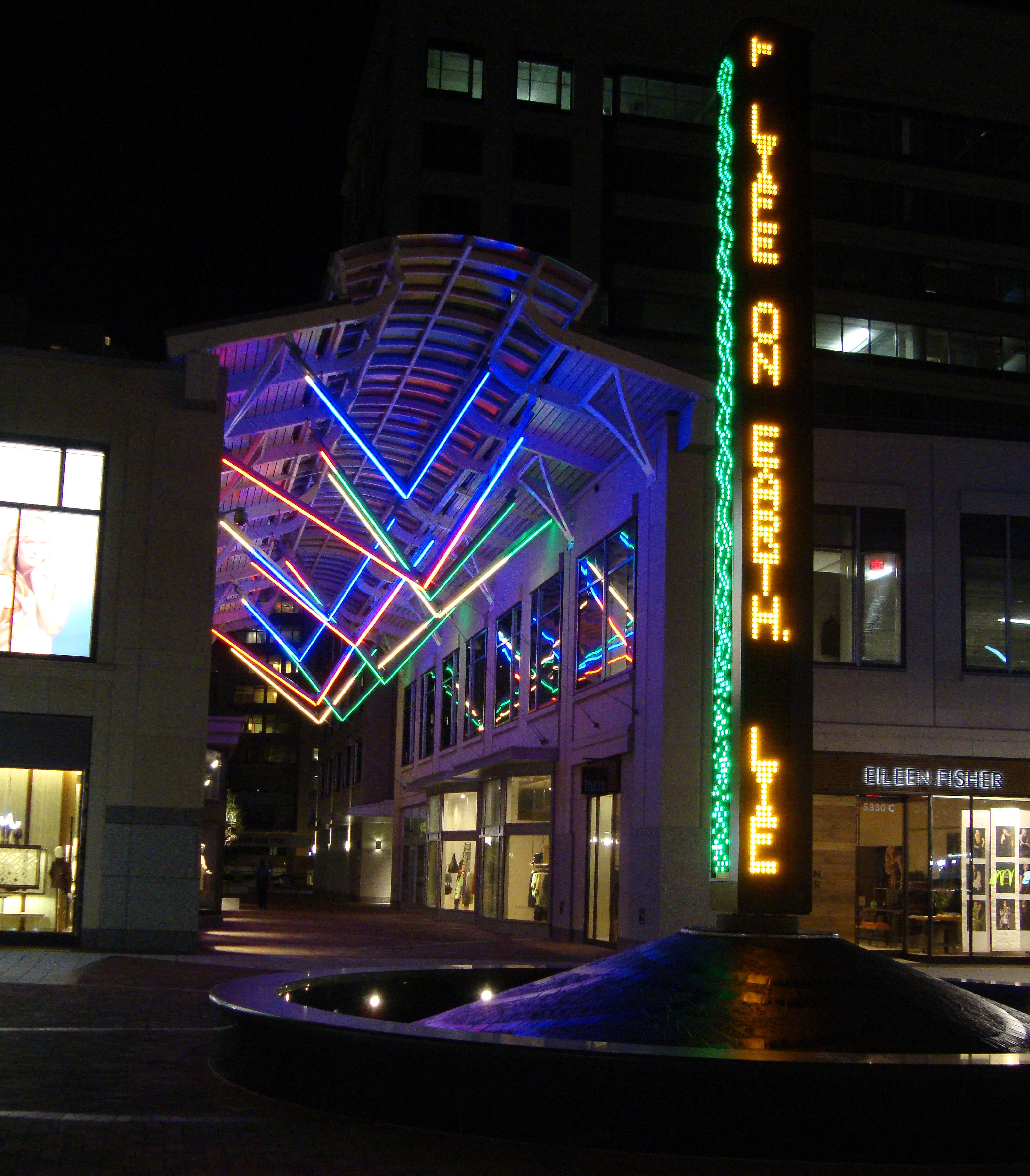 Light Obelisk Fountain and Light Riggings Arcade, Wisconsin Place, Bethesda, MD/DC, designed by Athena Tacha, animated LEDs and RGBs, 2001-09, in collaboration with Arrowstreet Inc. & Color Kinetics of Boston, and Art Display Co. of Washington, DC (photo Richard Spear)